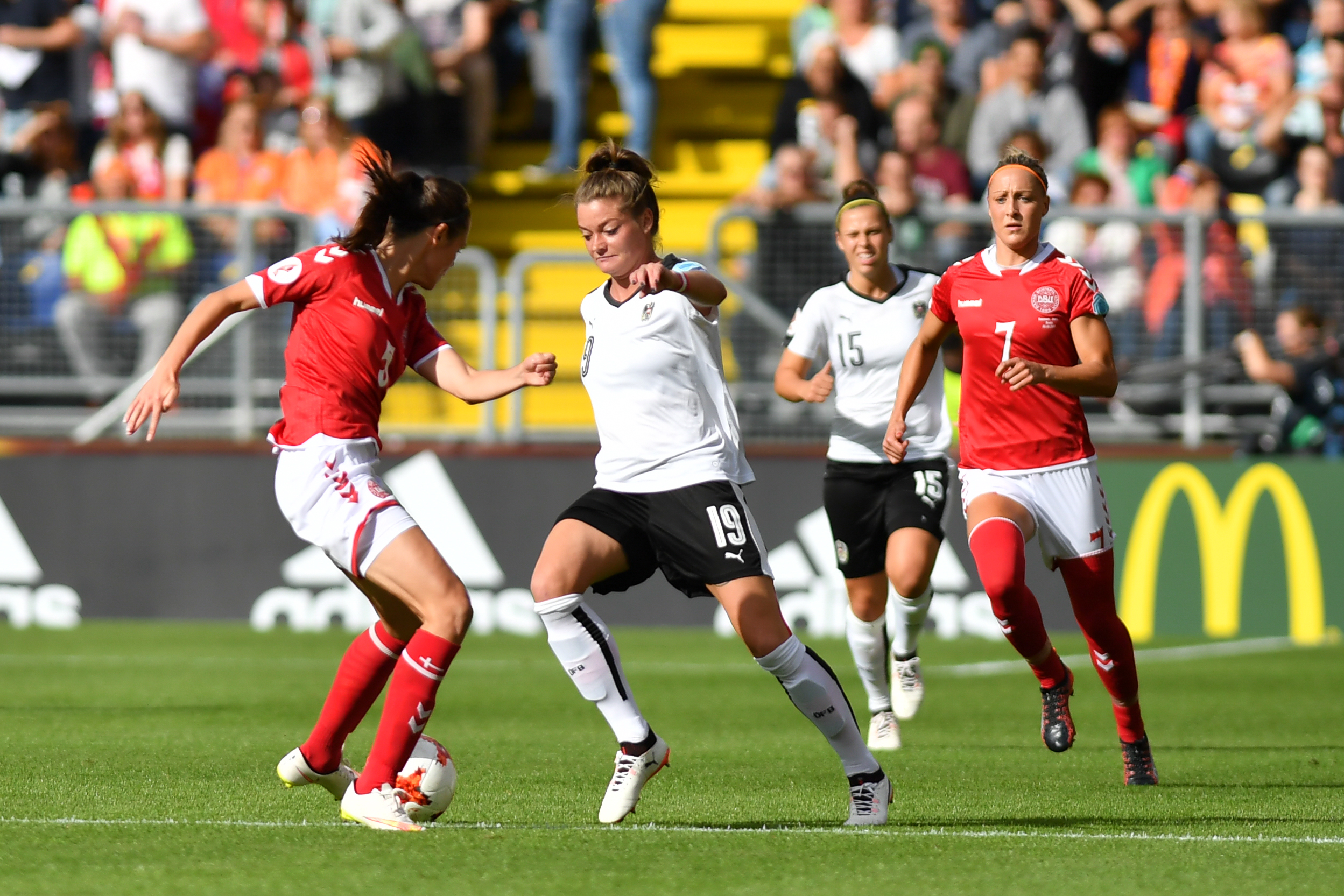 3/8/2017, Breda, Netherlands, sports, soccer, UEFA Women's Euro 2017 - Semifinal - Denmark vs Austria.